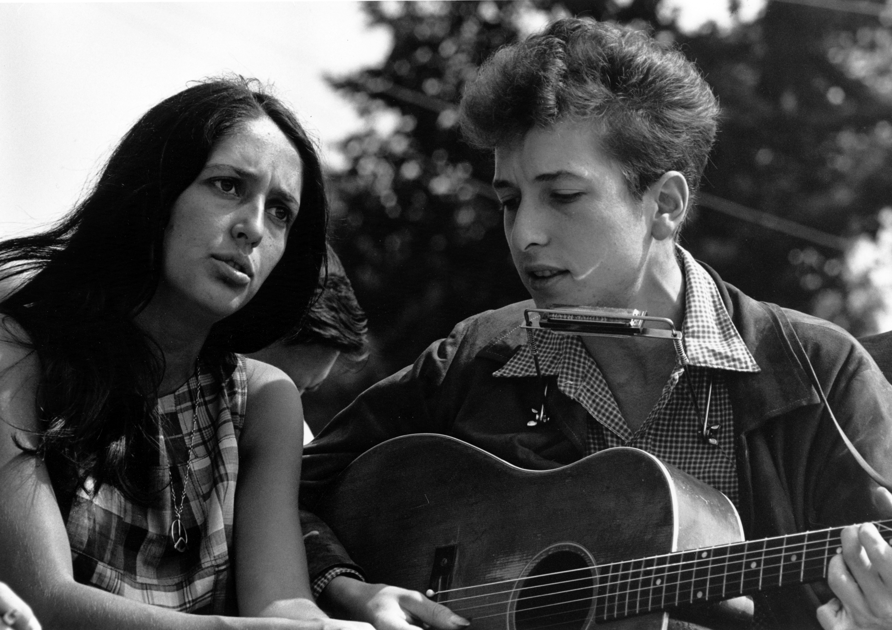 Civil Rights March on Washington, D.C. [Entertainment: closeup view of vocalists Joan Baez and Bob Dylan.], 08/28/1963